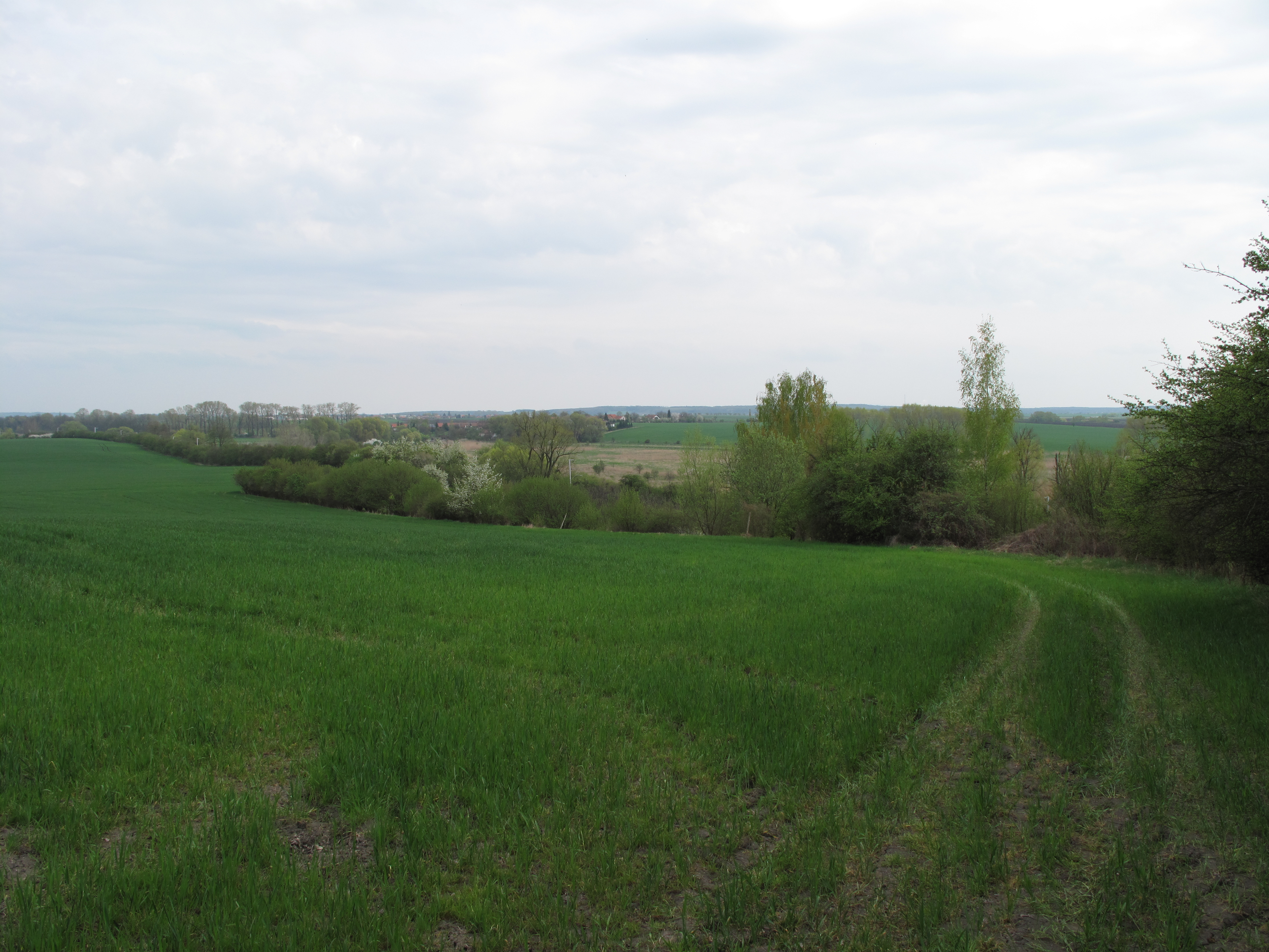 Edge part of national natural reserve Kněžičky, Kolín and Nymburk Districts, Czech Republic.